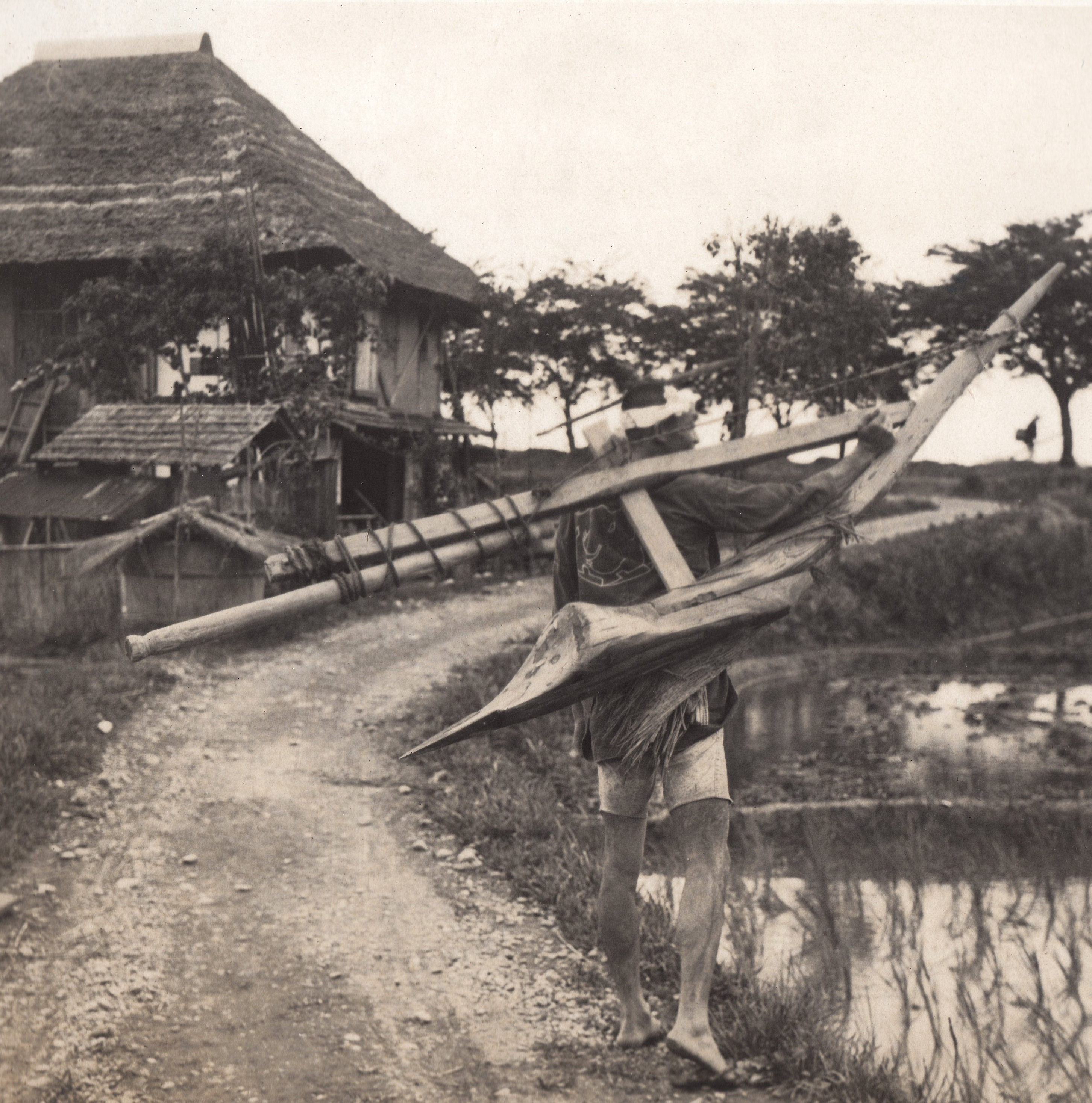 I love the plow's sculpted shape, and the design that allows one person to carry it one-handed over one shoulder. From Elstner Hilton's photographs of Japan, 1914 - 1918.